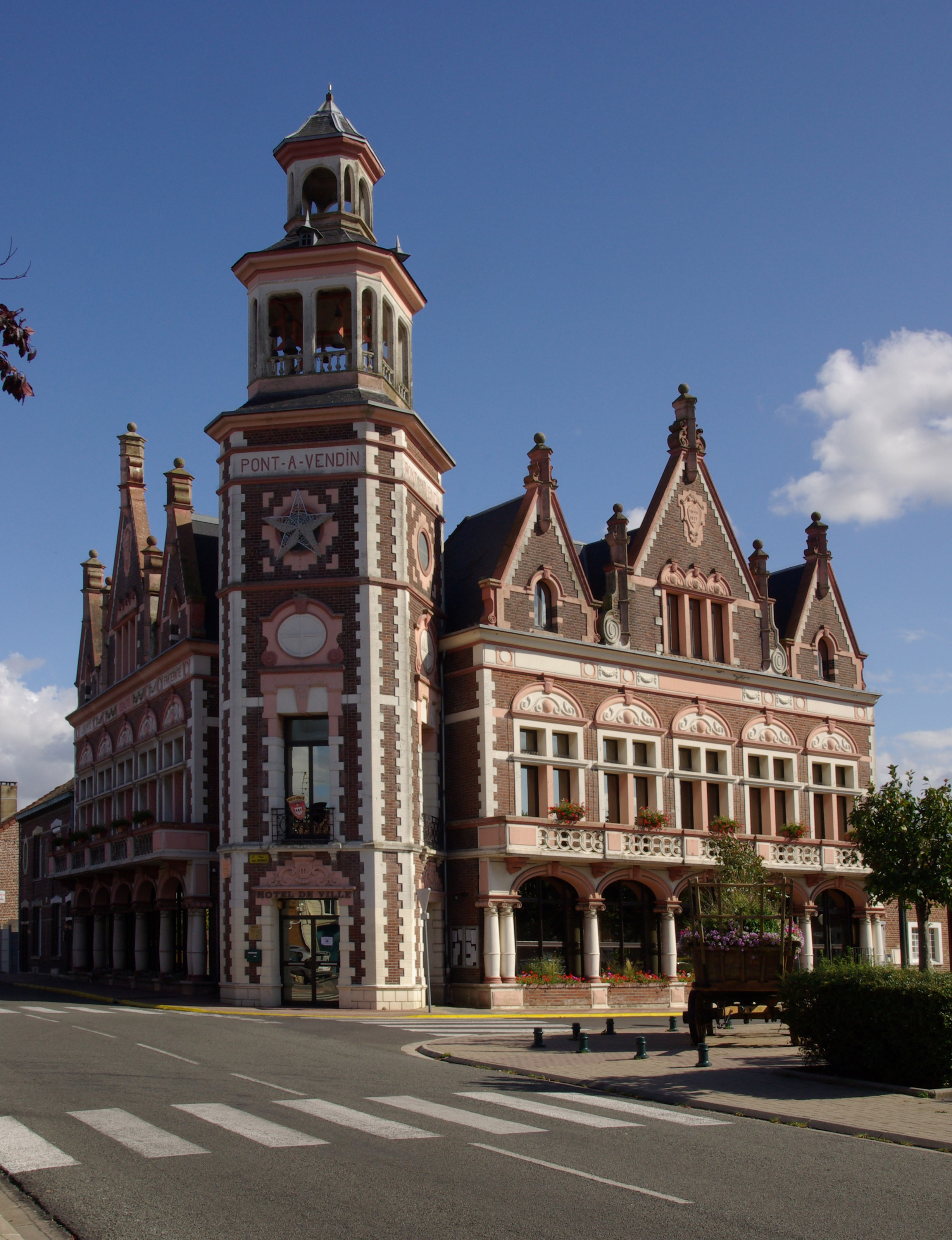 City Hall Of Pont-à-Vendin